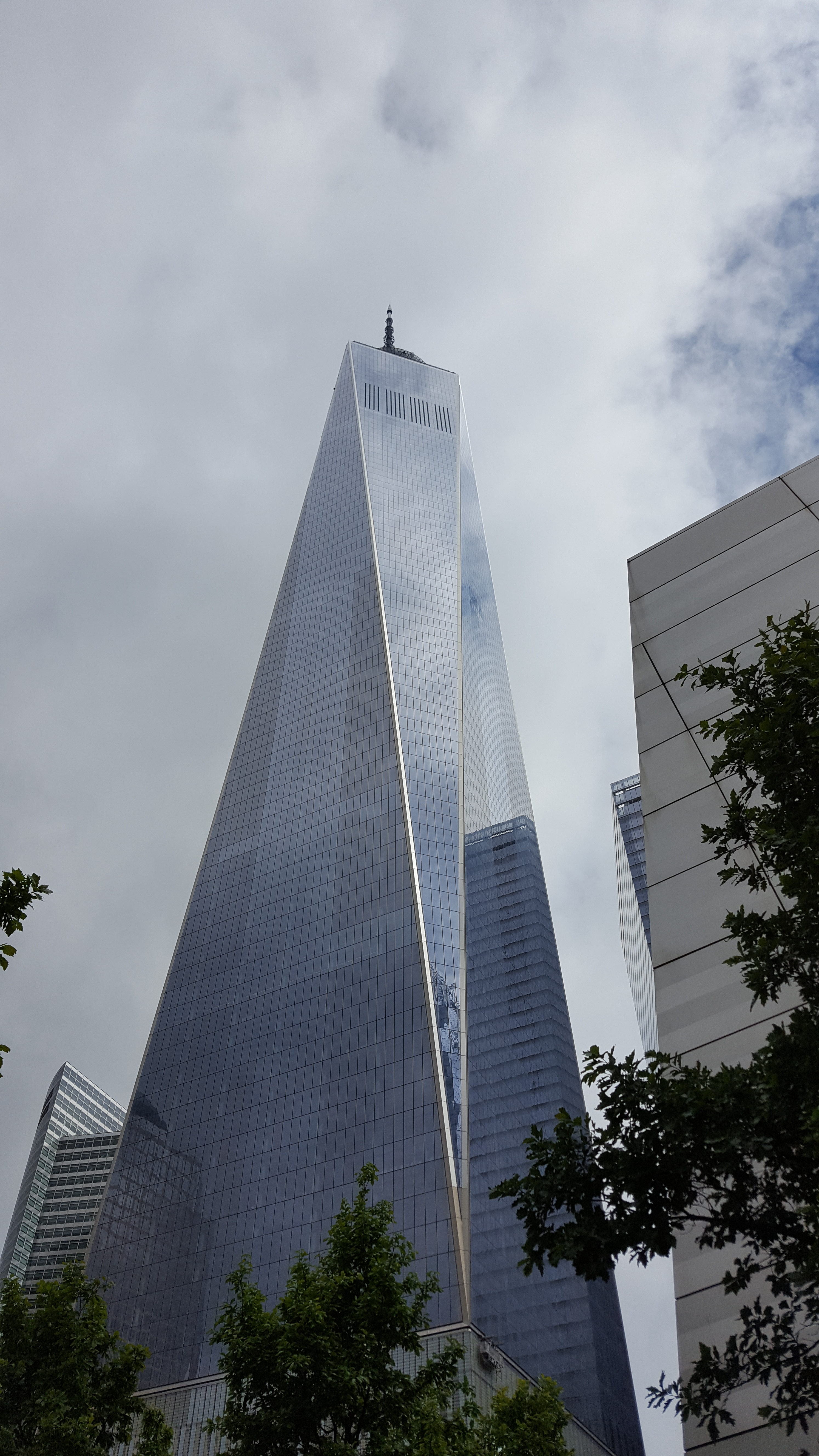 One World Trade Center viewed from the National September 11 Memorial